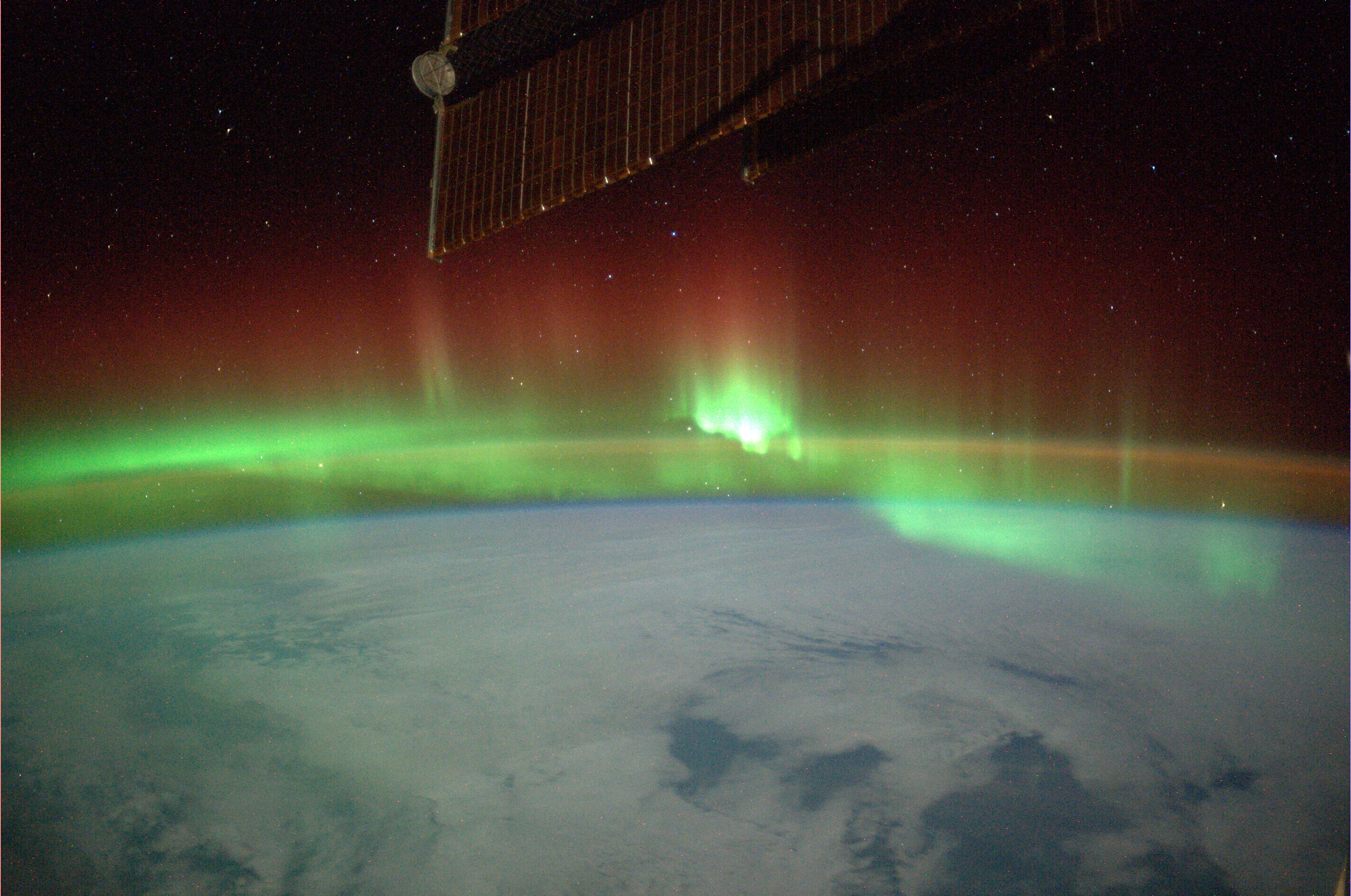 Yesterday we actually flew through this Aurora. It almost blew my mind. Will send video soon...! Sind gestern durch dieses Südlicht hindurch geflogen, hat mich fast umgehauen! Sende bald Video davon... Credit: ESA, CC BY-SA 3.0 IGO 931_6451